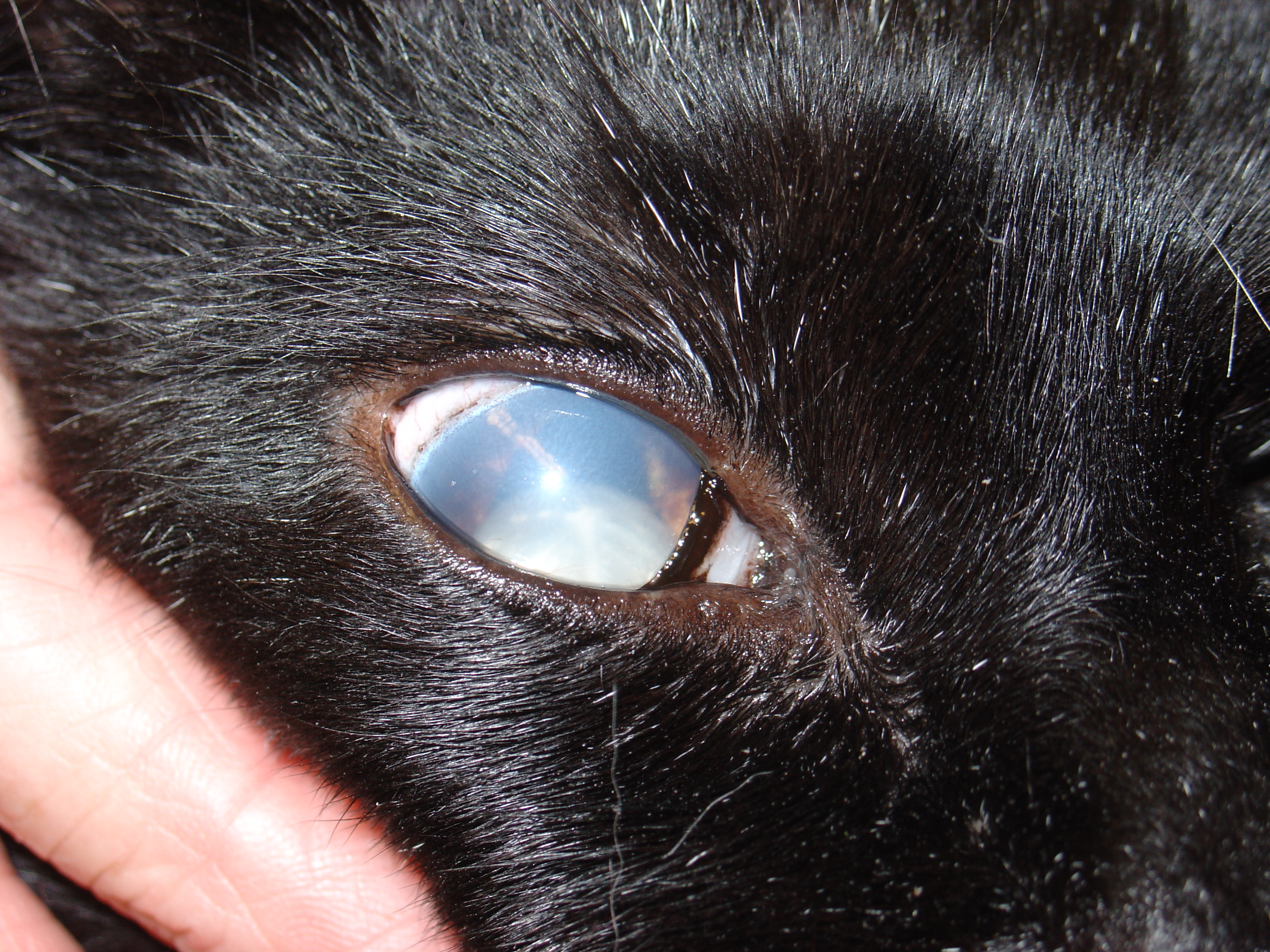 Anterior lens luxation in a cat. The lens has a mature cataract which formed following lens luxation. This is the same cat seen in Image:Feline anterior luxated lens.JPG, but 17 months later.